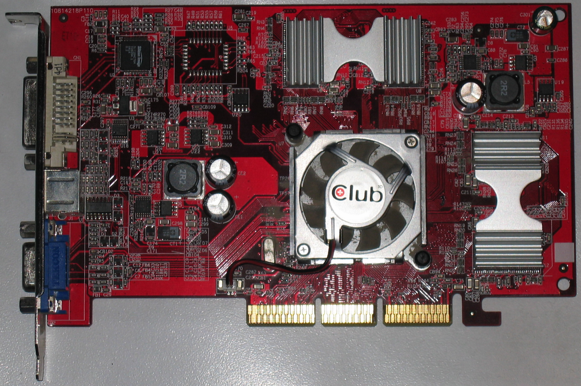 Graphics card from Club-3D with S3 Graphics Deltachrome S8, 258 MB, AGP 8x Photo taken by me